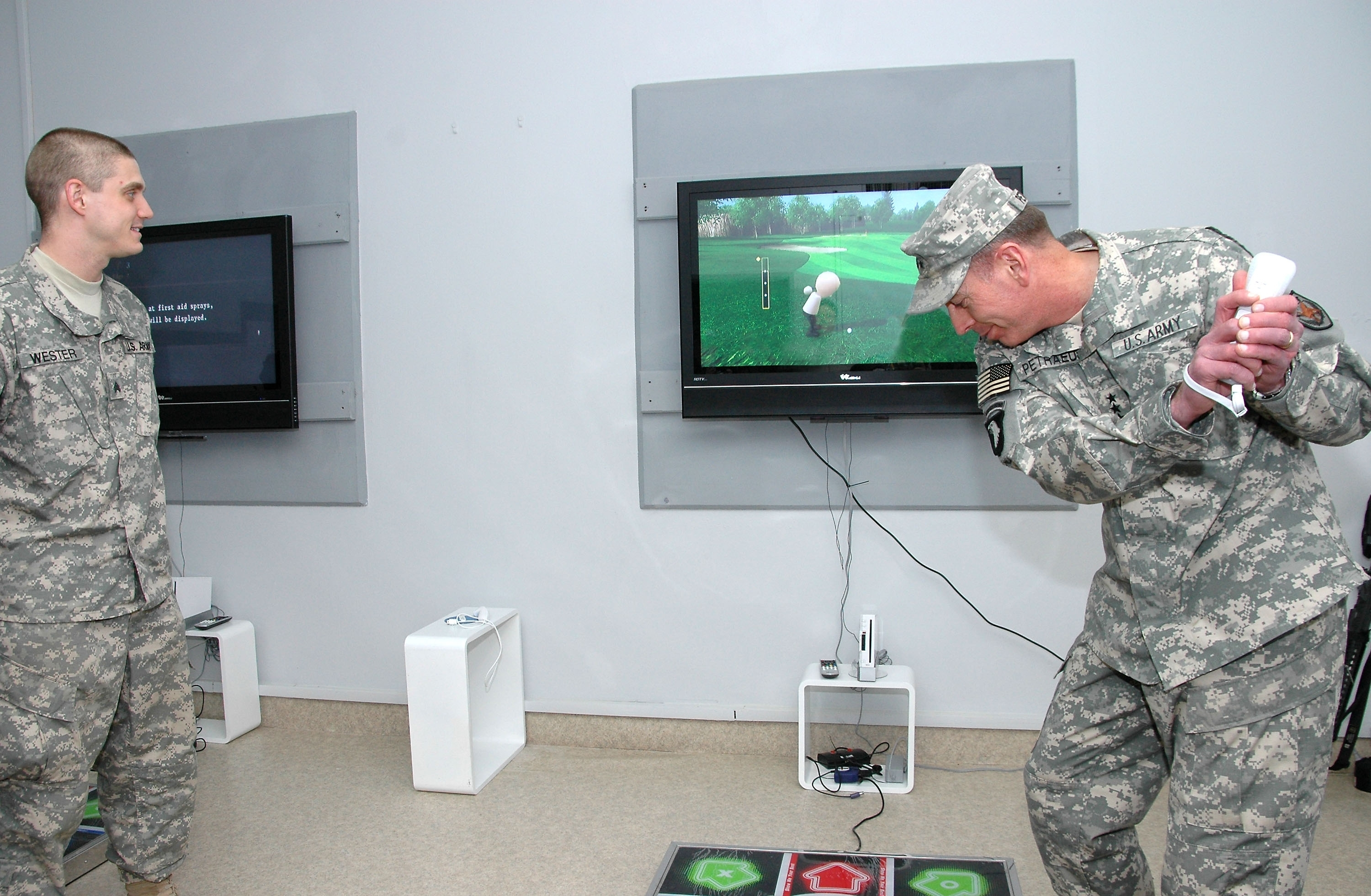 Sgt. Jonathan Wester stands by to assist Gen. David H. Petraeus, Multi-National Forces-Iraq commander, with a round of Wii golf in the interactive video game room of the new USO center at Camp Anaconda, Balad.